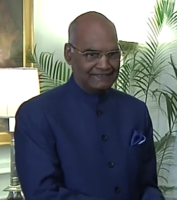 Prime Minister of Nepal calls on the President of India